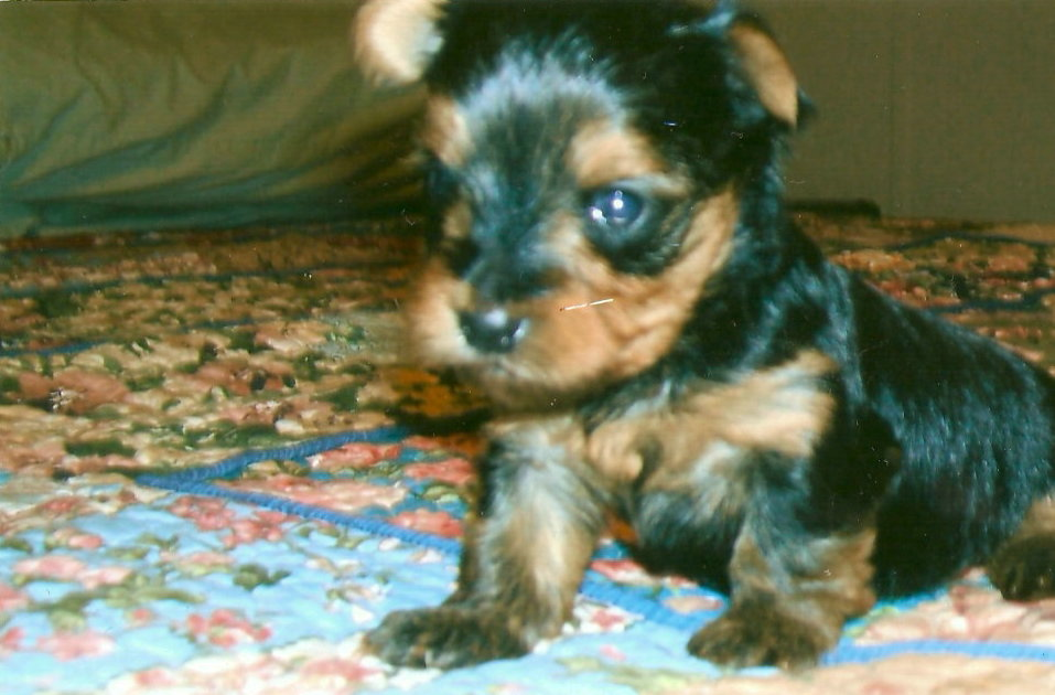 Yorkshire Terrier Puppy